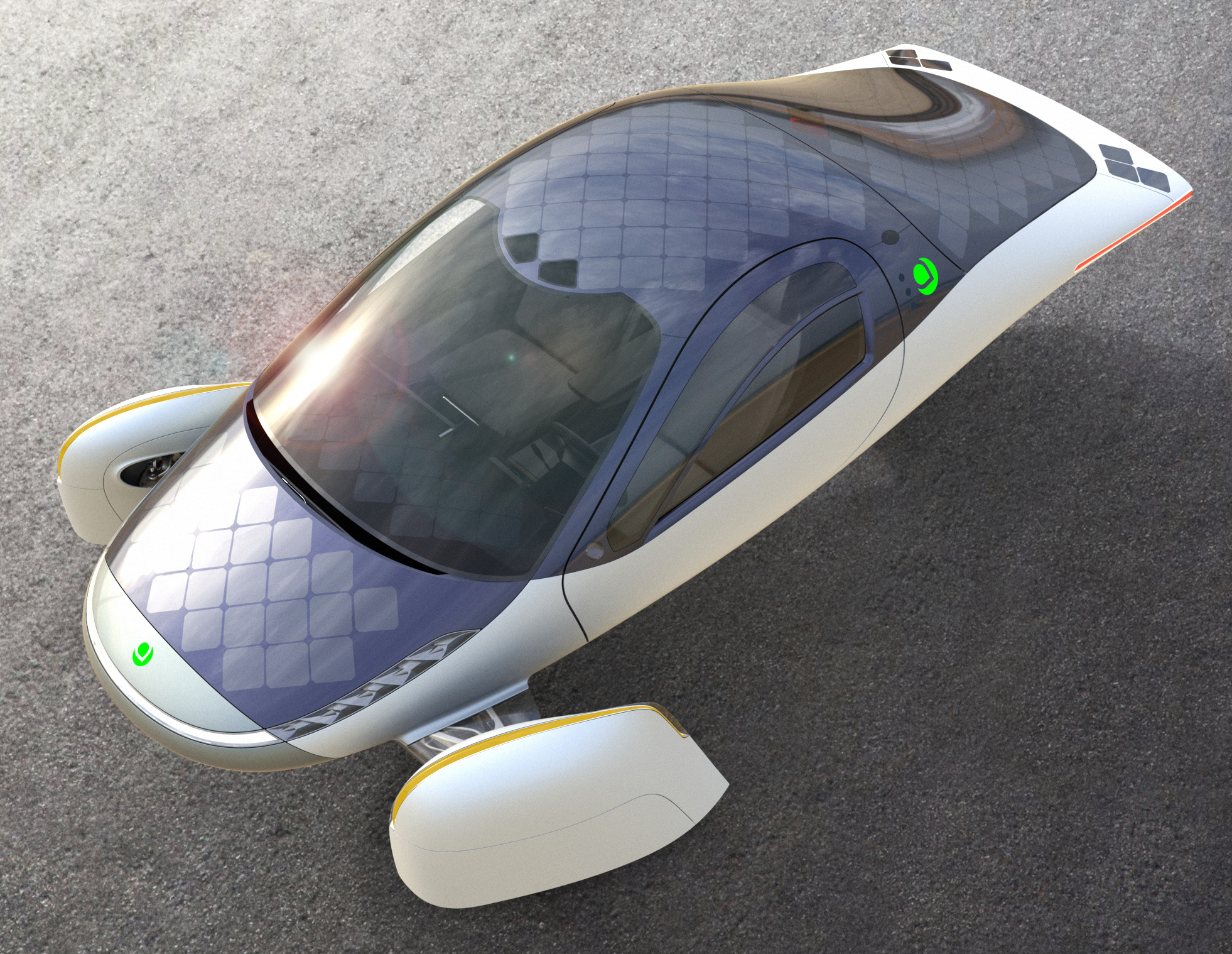 Rendering of the Aptera 3 "Never Charge" design, as viewed from above, showing a full complement of solar cells capable of generating 700 watts in ideal conditions.